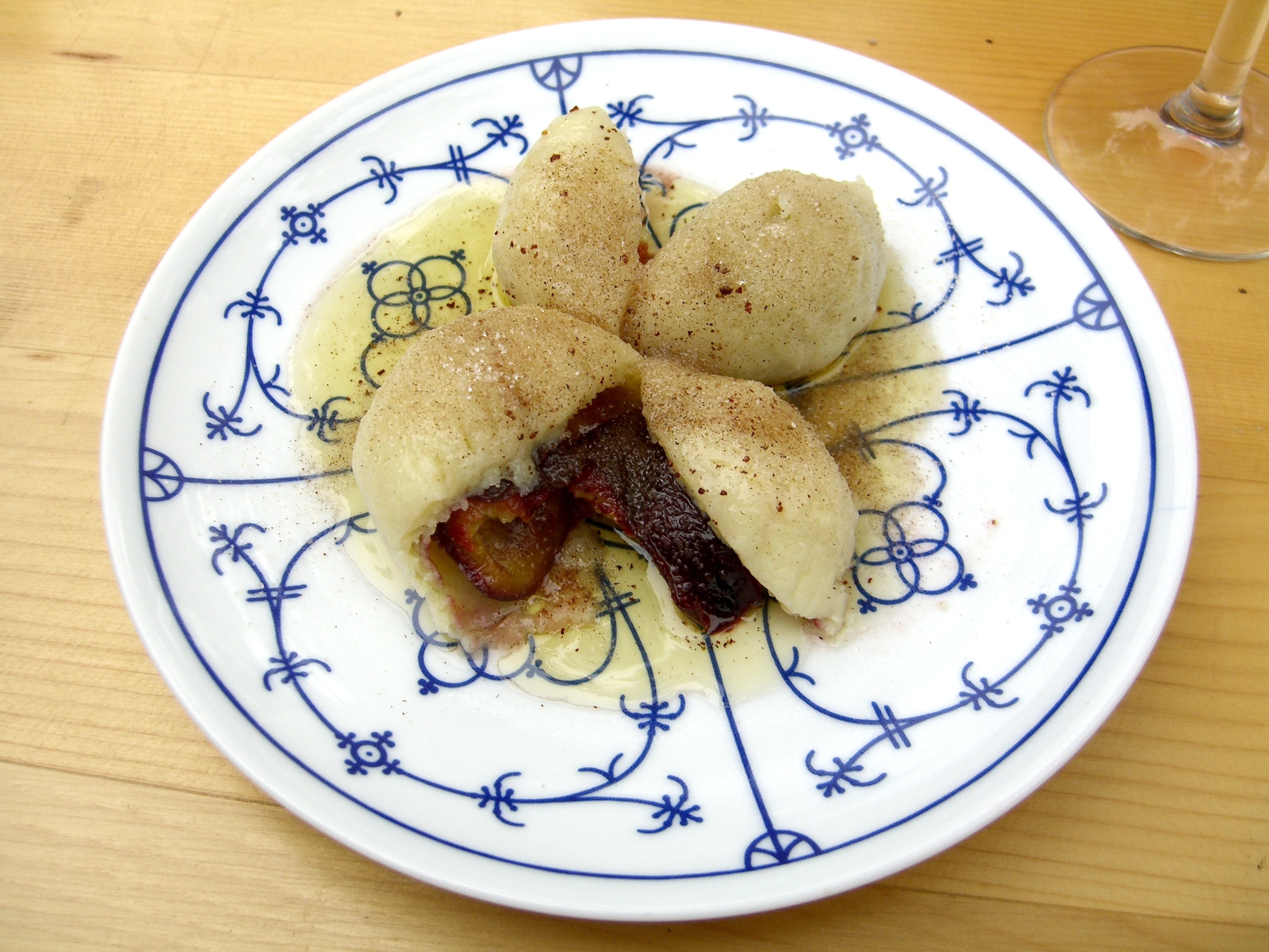 Two plum dumplings made by my grandma and eaten in 2005 at a party in my garden.